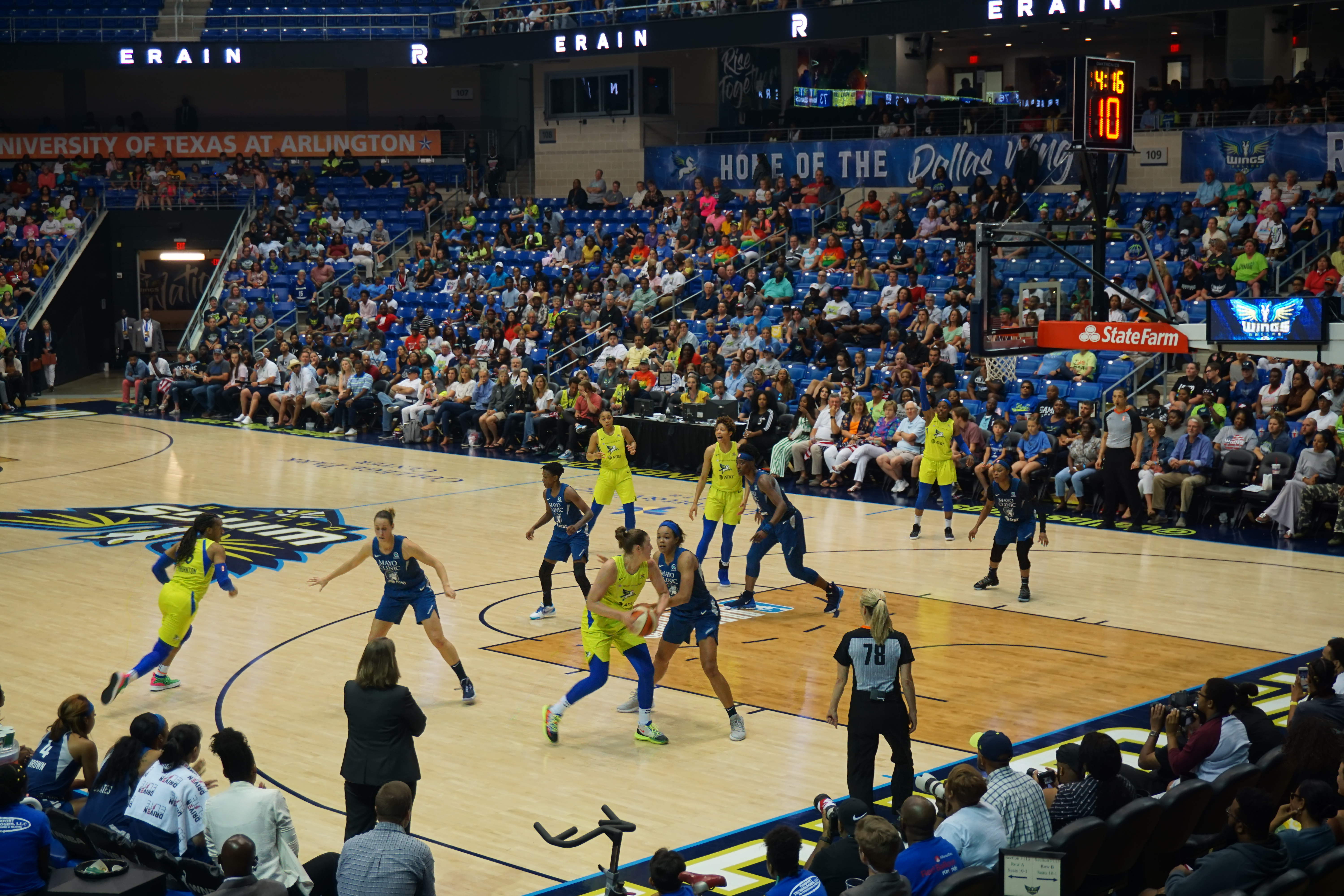 In-game action during the Minnesota Lynx vs. Dallas Wings basketball game at College Park Center in Arlington, Texas (United States). Dallas won 89–86.